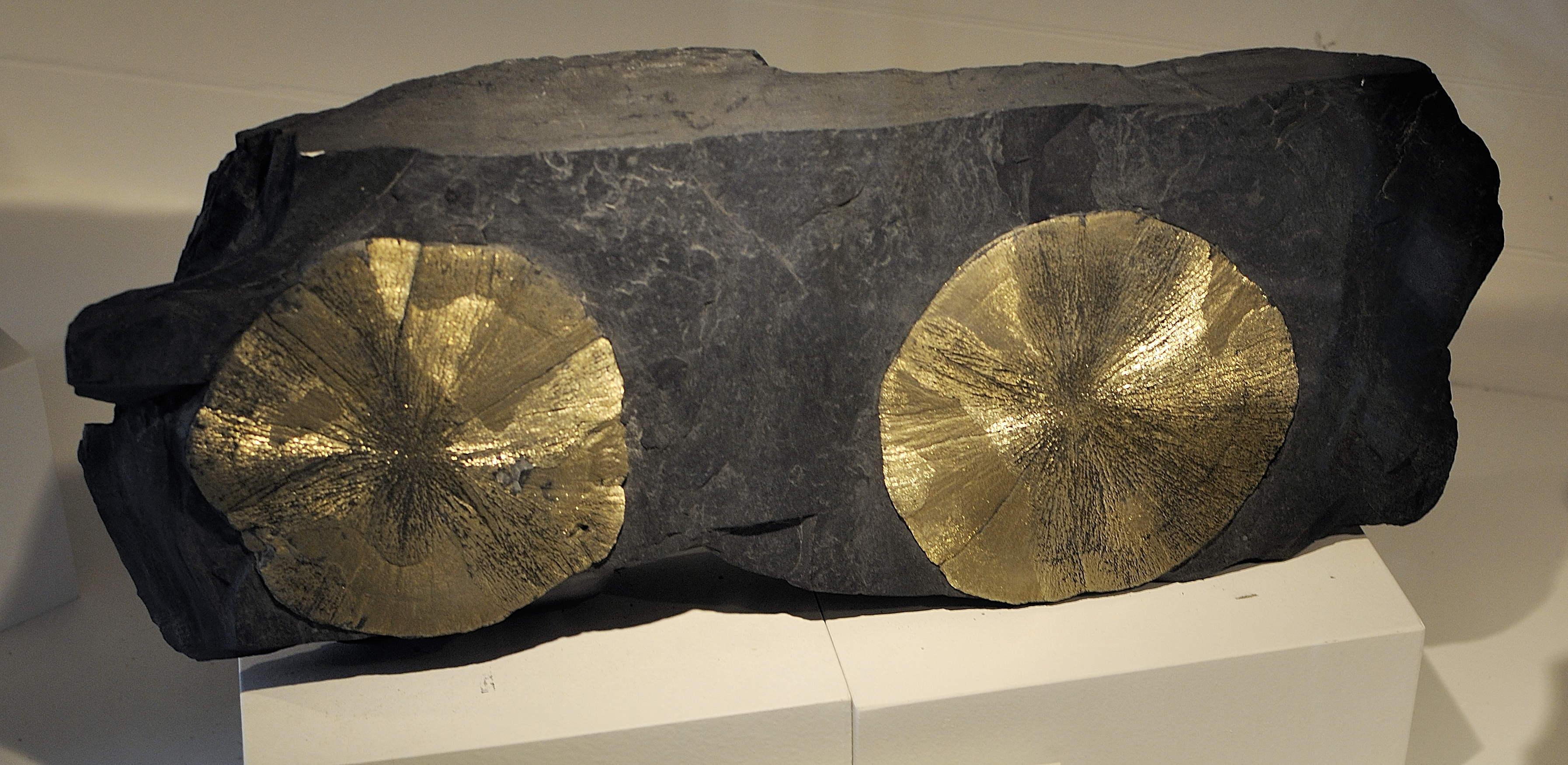 Harvard Museum of Natural History. Pyrite. Coal mines of Sparta, Randolph Co., Il.